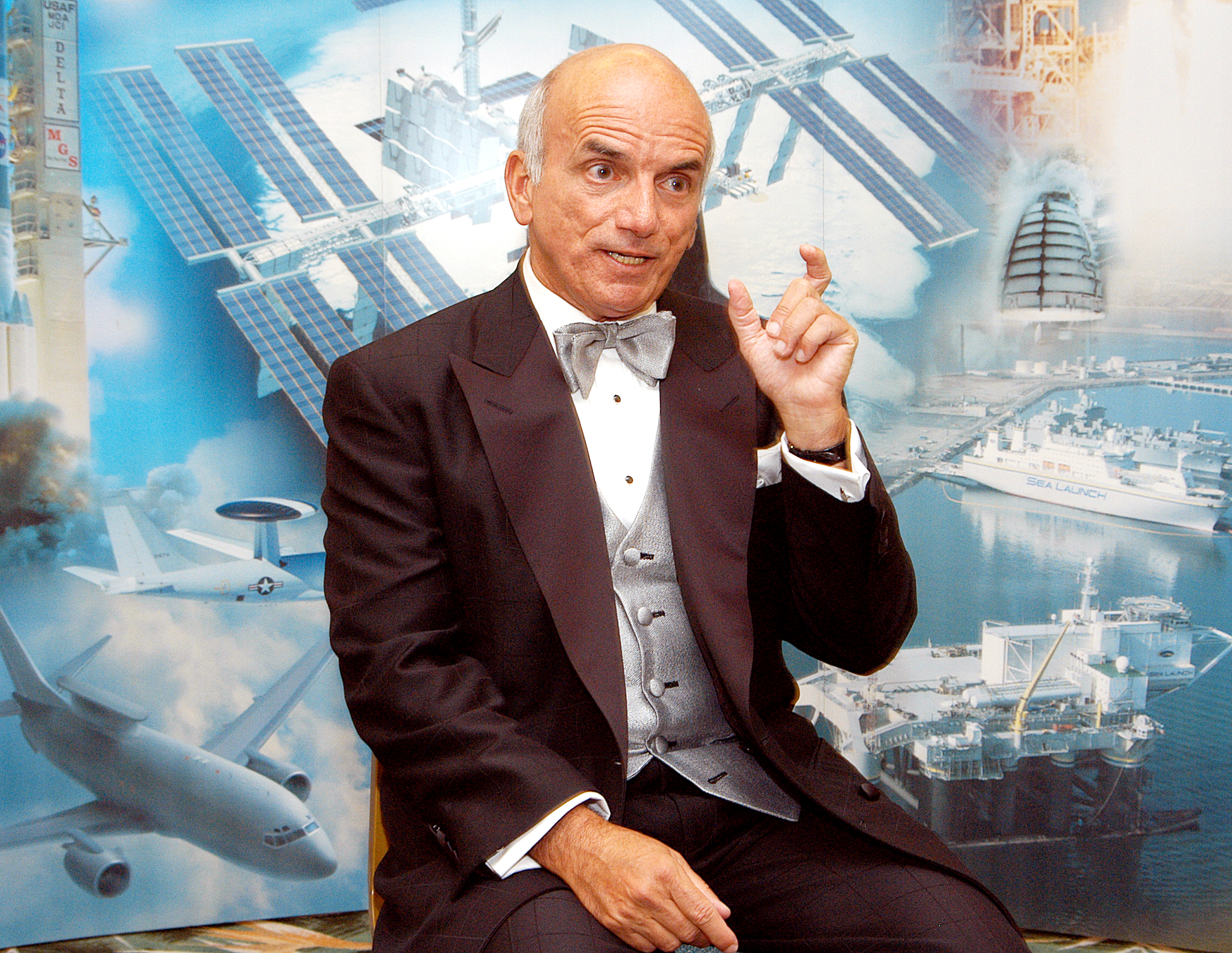 Dennis Tito, the first private citizen to visit the International Space Station, shares his experiences with visitors at the 40th Space Congress. Held April 29-May 2, 2003, in Cape Canaveral, Fla., the Space Congress is an international conference that gathers attendees from the scientific community, the space industry workforce, educators and local supporting industries. This year's event commemorated the 40th anniversary of the Kennedy Space Center and the Centennial of Flight. The theme for the Space Congress was "Linking the Past to the Future: A Celebration of Space."